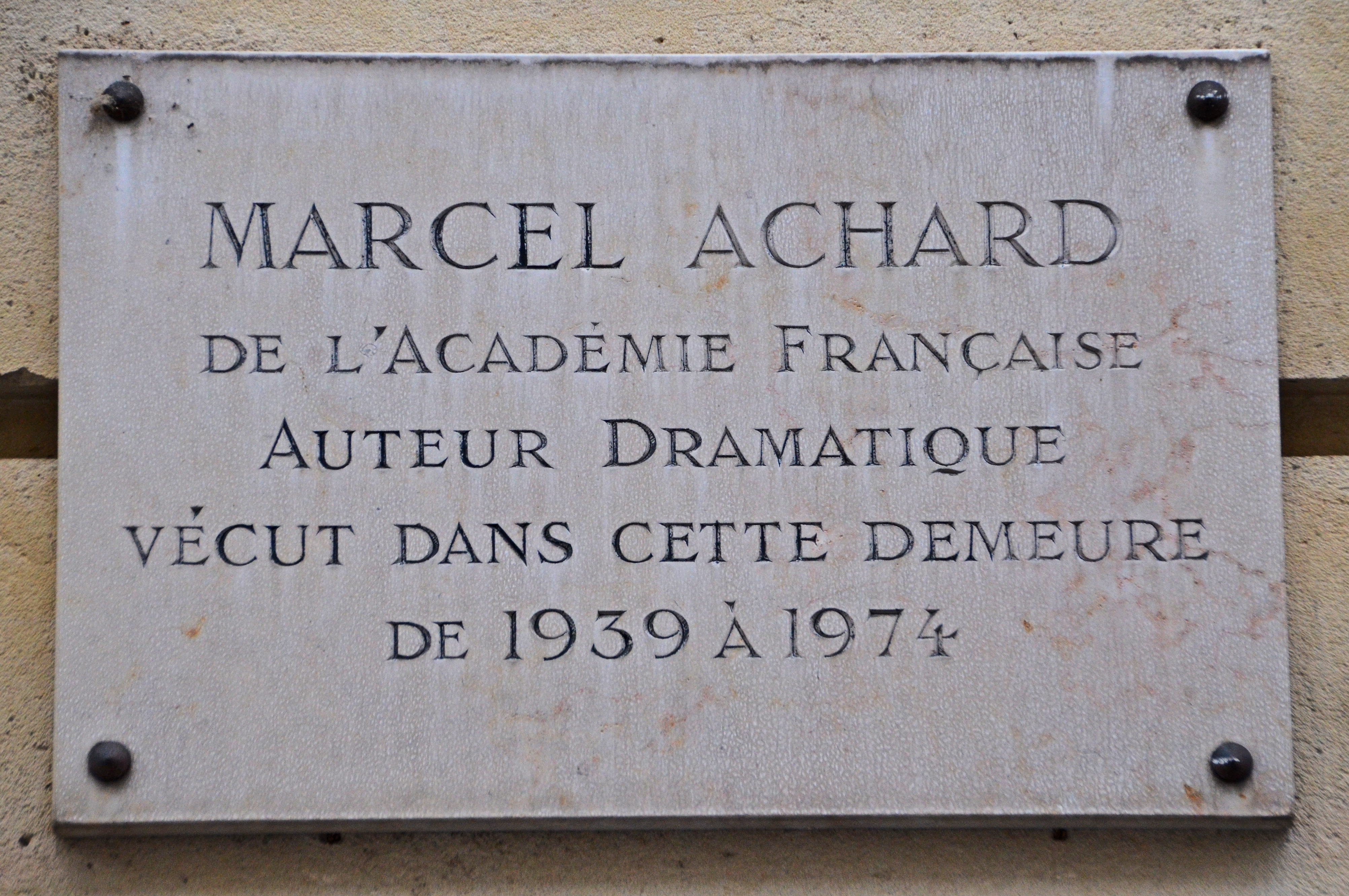 Read more about him here